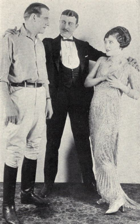 Still from the American drama film Her Husband's Trademark (1922) with Richard Wayne (1881 – 1958), Stuart Holmes, and Gloria Swanson, on page 151 of Screen Acting.